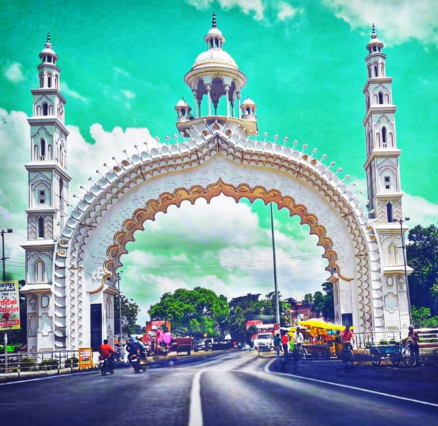 Laharpur Entrance Gate